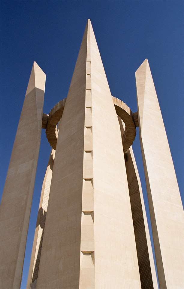 Closeup view of the "Lotus Flower" tower, located at Aswan High Dam, Egypt